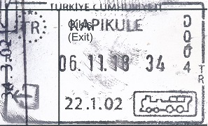 Turkish exit stamp